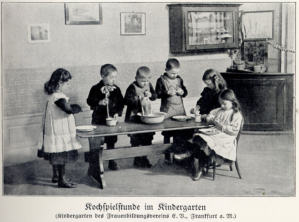 Preschool children are playing "cook". Photograph by an unknown author taken from a book about women and work from 1913.